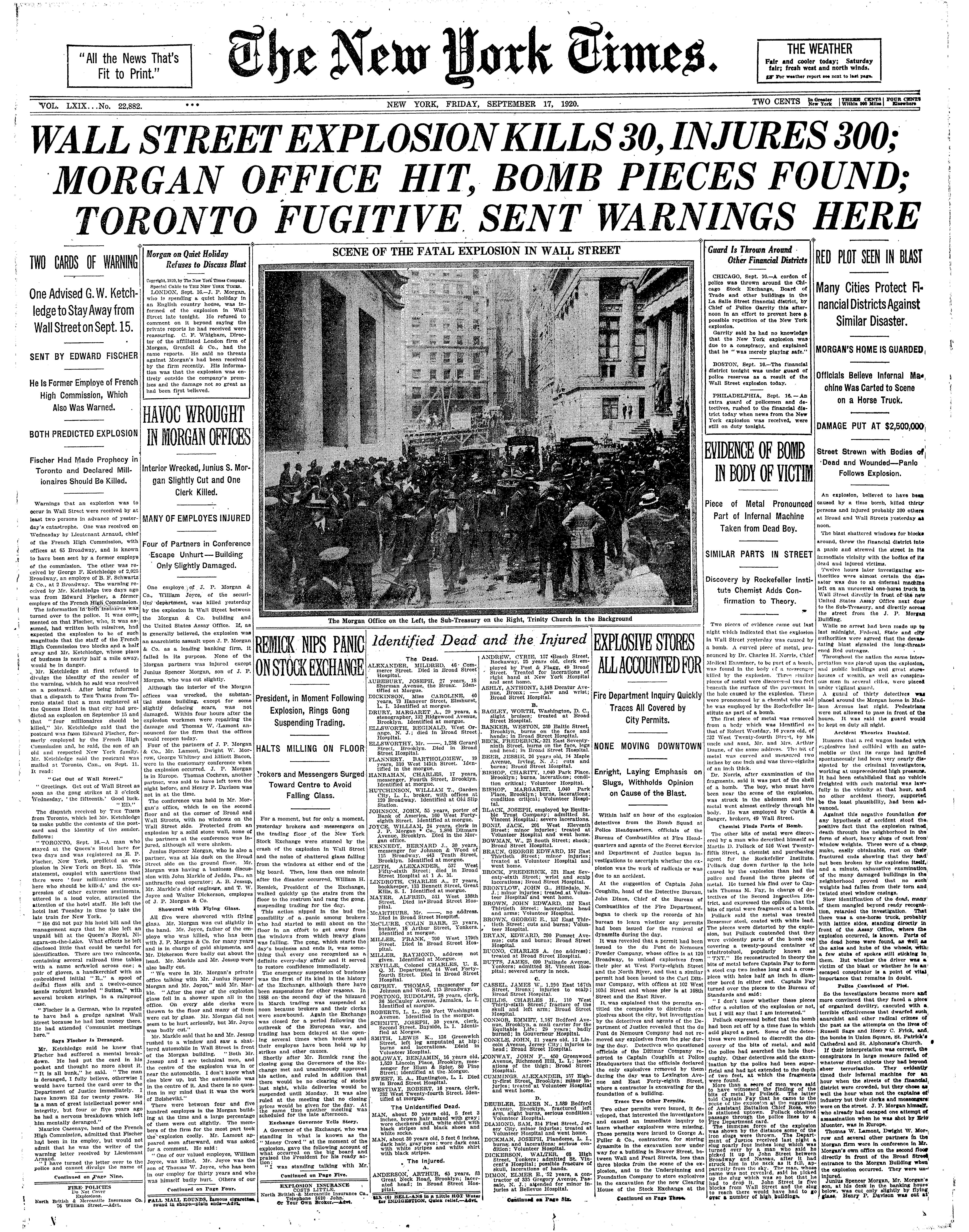 The New York Times front page 17 September 1920; Wall Street Bombing